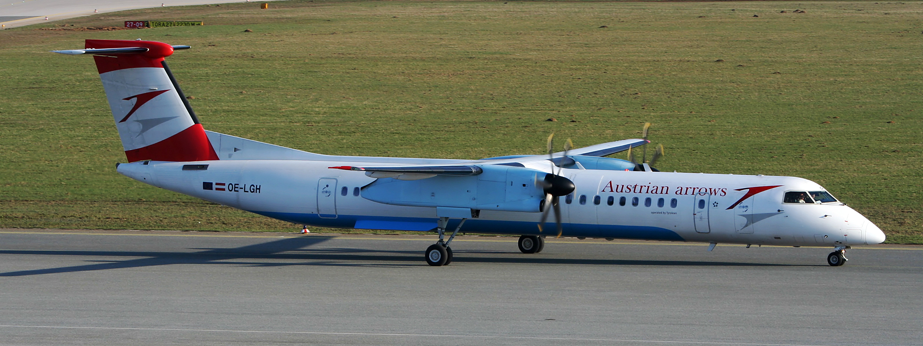 Dash8 402Q of Austrian Arrows on the way to its parking spot at Linz Hörsching